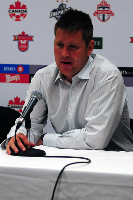 Interim Toronto FC coach Chris Cummins speaks to the media after a 2-0 loss to the Vancouver Whitecaps in Burnaby, BC, Canada. Wilson Wong photo.